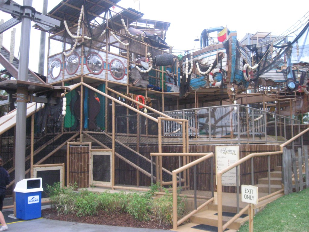 Castaway Bay at Sea World on the Gold Coast, Australia.